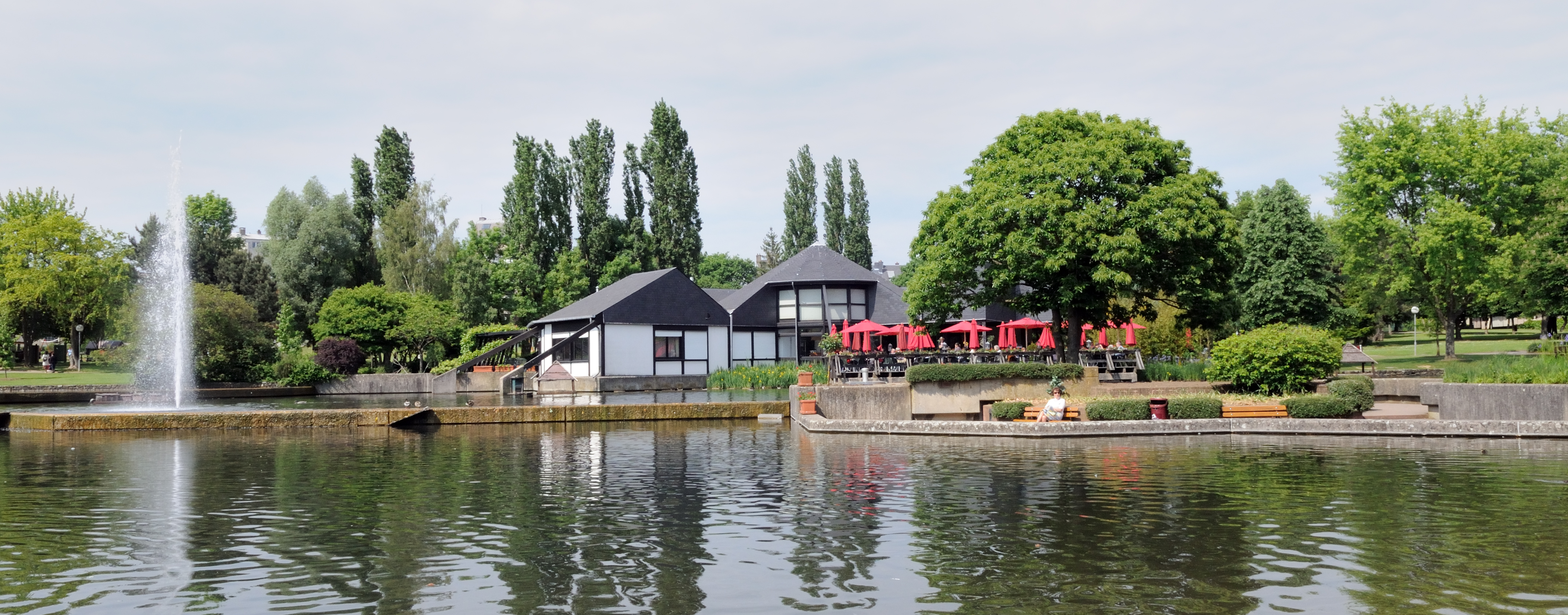 Luxembourg City, Parc de Merl: water basin and pavilion with terrace above the water.